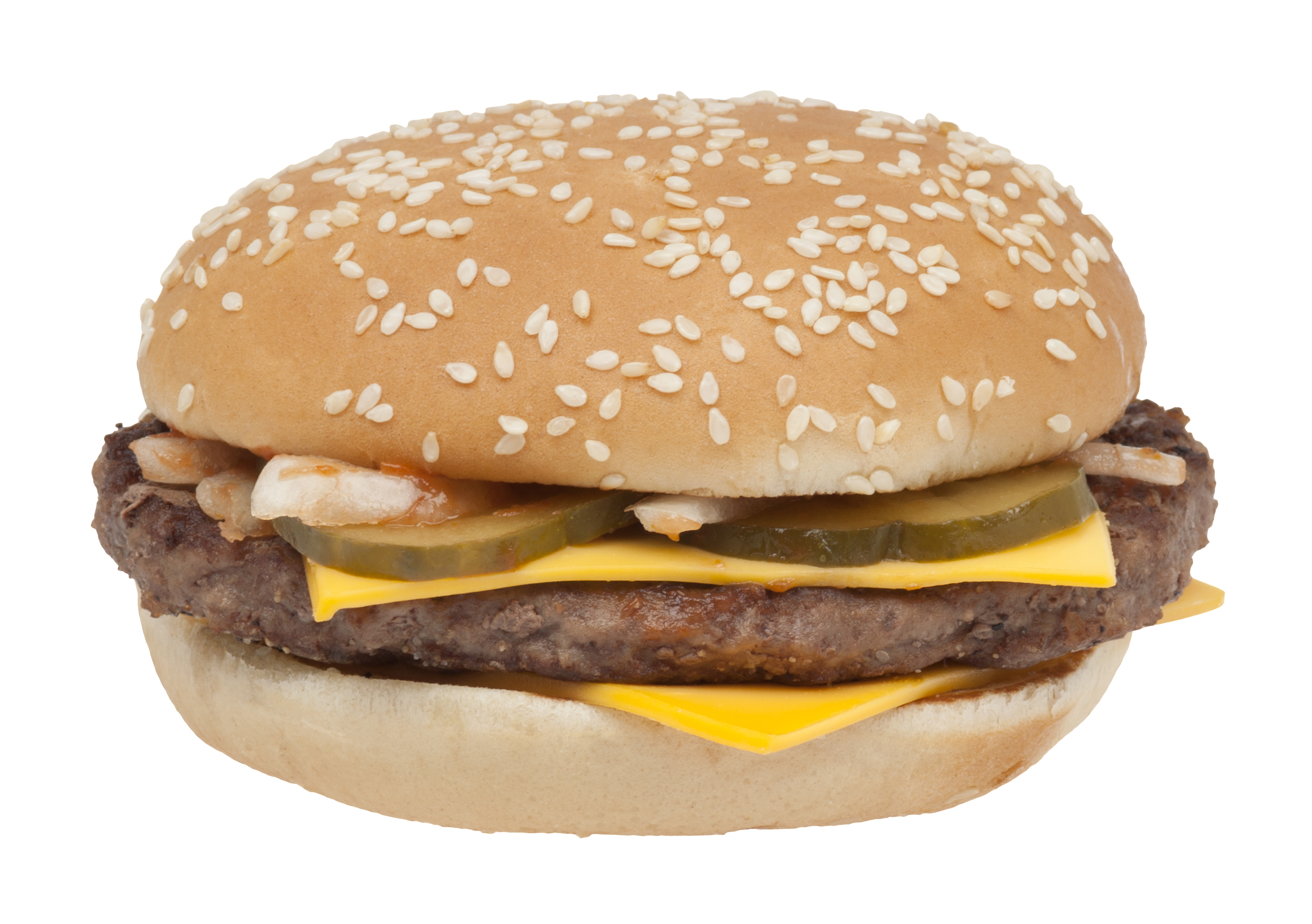 A Quarter Pounder w/Cheese from McDonald's, as sold in the United States.